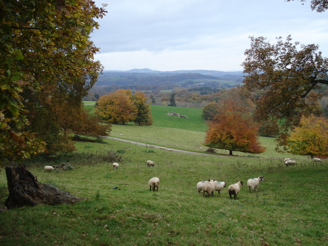 Brockhampton Park Looking north-east with the Abberley Hills in the distance.